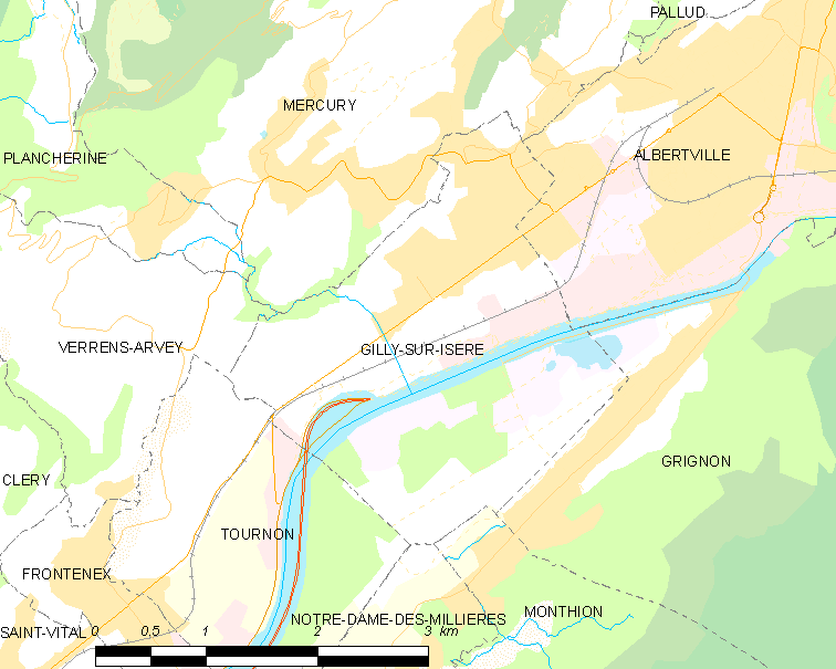 Map of French municipality